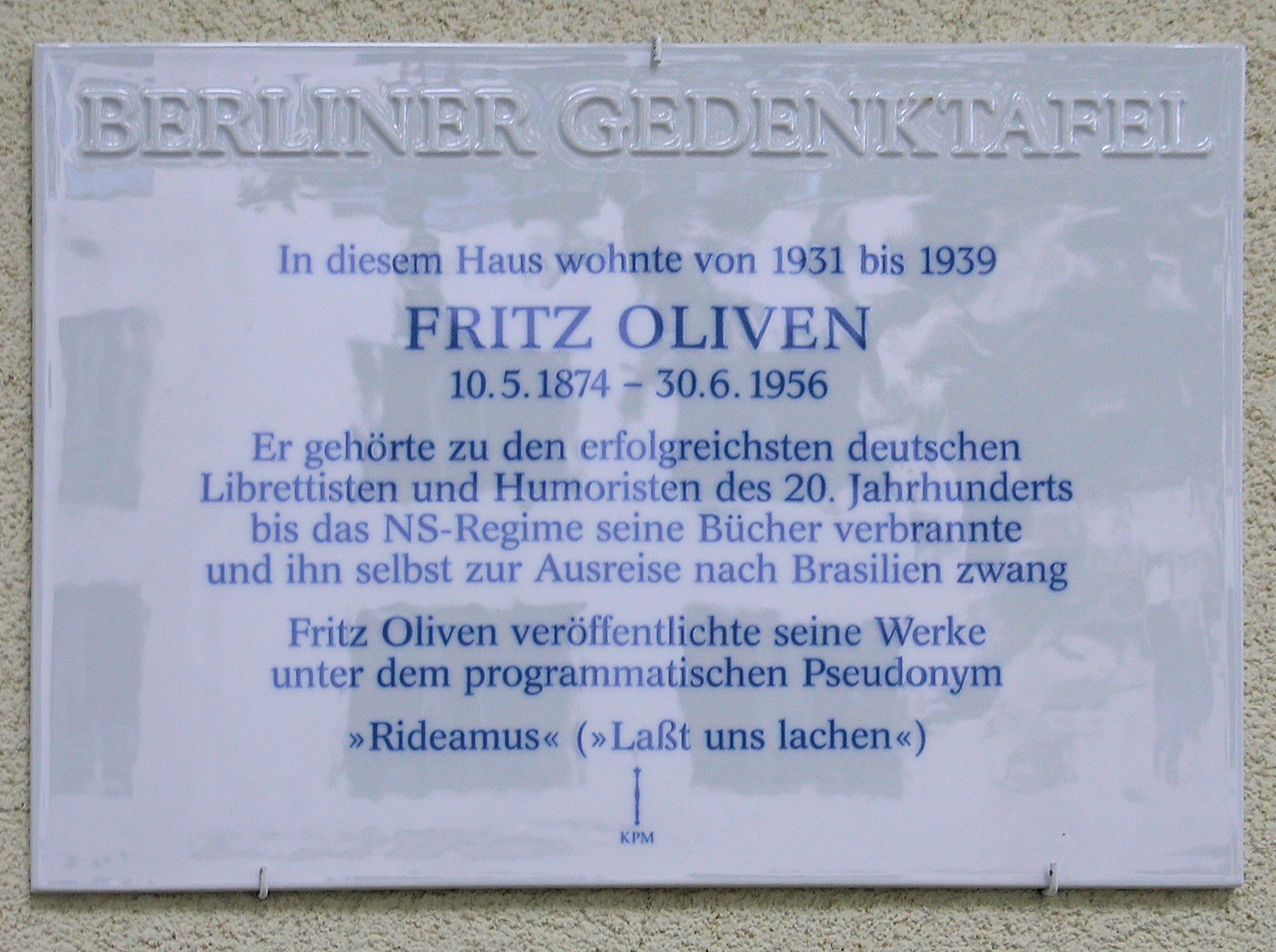 Berlin memorial plaque, Fritz Oliven, Giesebrechtstraße 11, Berlin-Charlottenburg, Germany Koordinate:52°30′4″N 13°18′41″E / 52.50111°N 13.31139°E